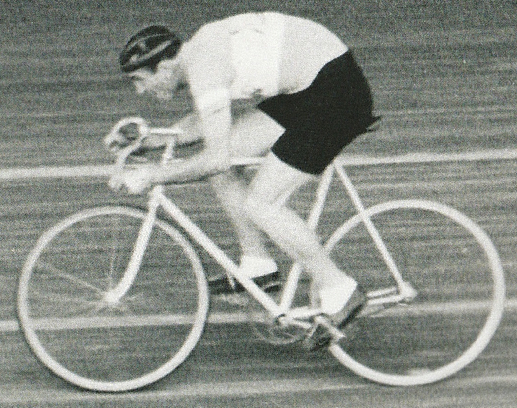 Fiorenzo Magni sets the new world record over 100 km at the Vigorelli Velodrome